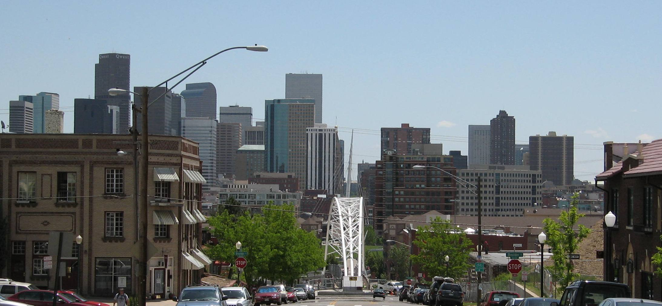 Denver CO from Highlands. Personally taken by me (MobyLL), with a digital camera, May 20, 2007